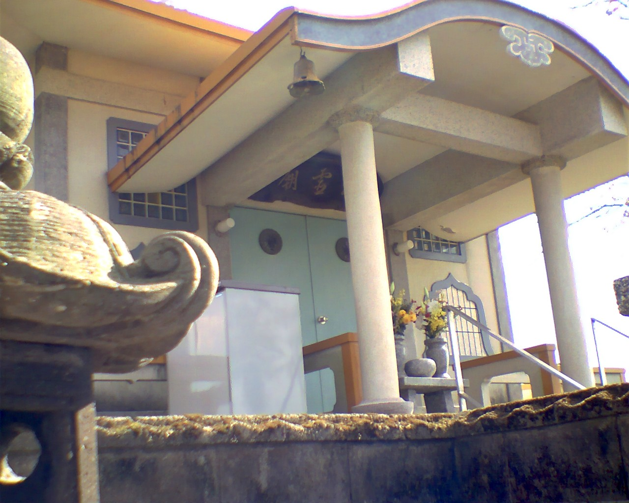 This photograph is the "Noukotsudou" set up in Nakabaru town.